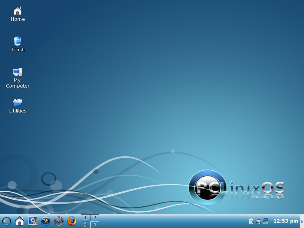 PCLinuxOS 2009.2 Screenshot